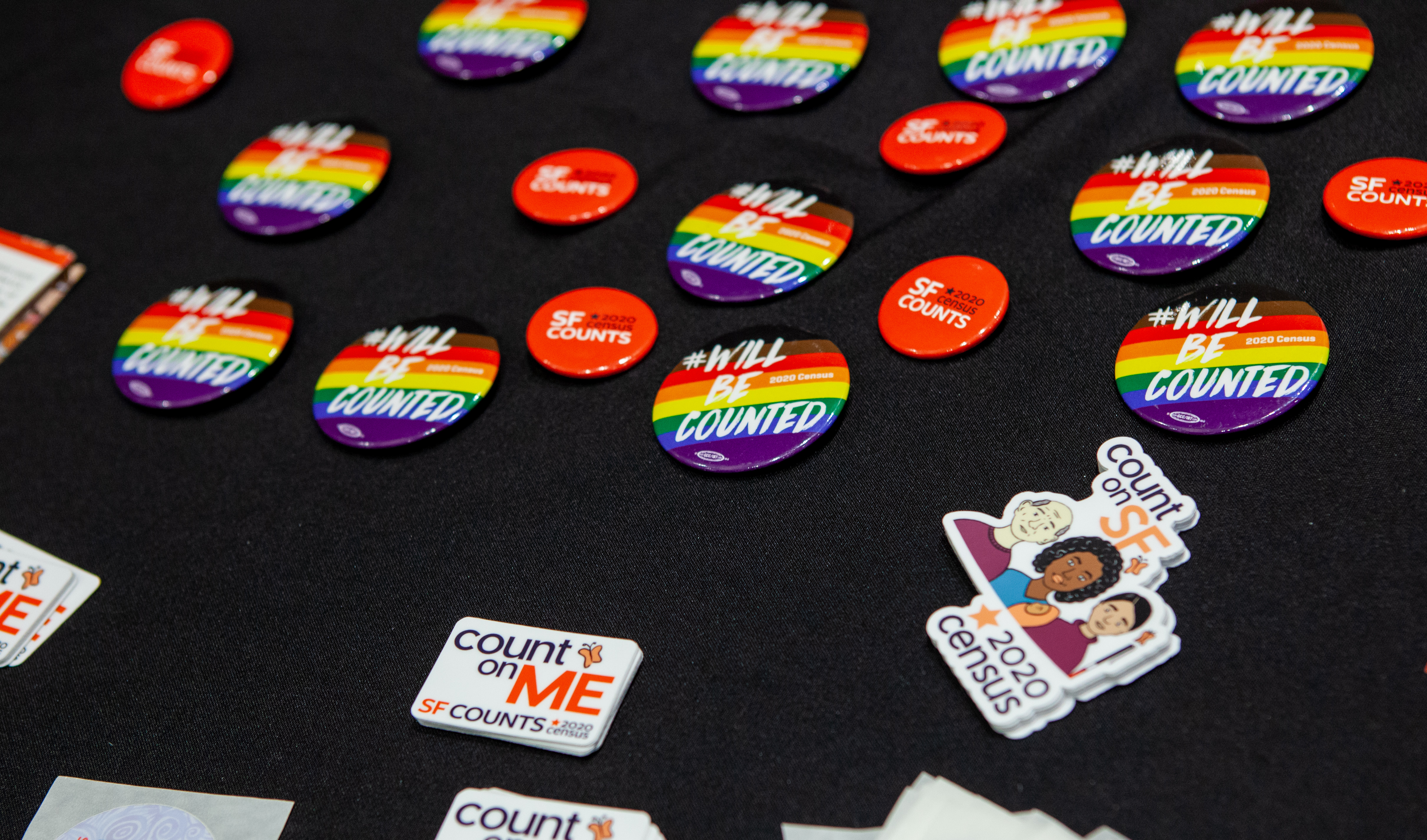 Buttons and stickers reading "#Will Be Counted", "Count on Me", "SF Counts", and "Count on SF" lie on a table at the Commonwealth Club in San Francisco, for an event on the 2020 Census and the LGBTQ Community.